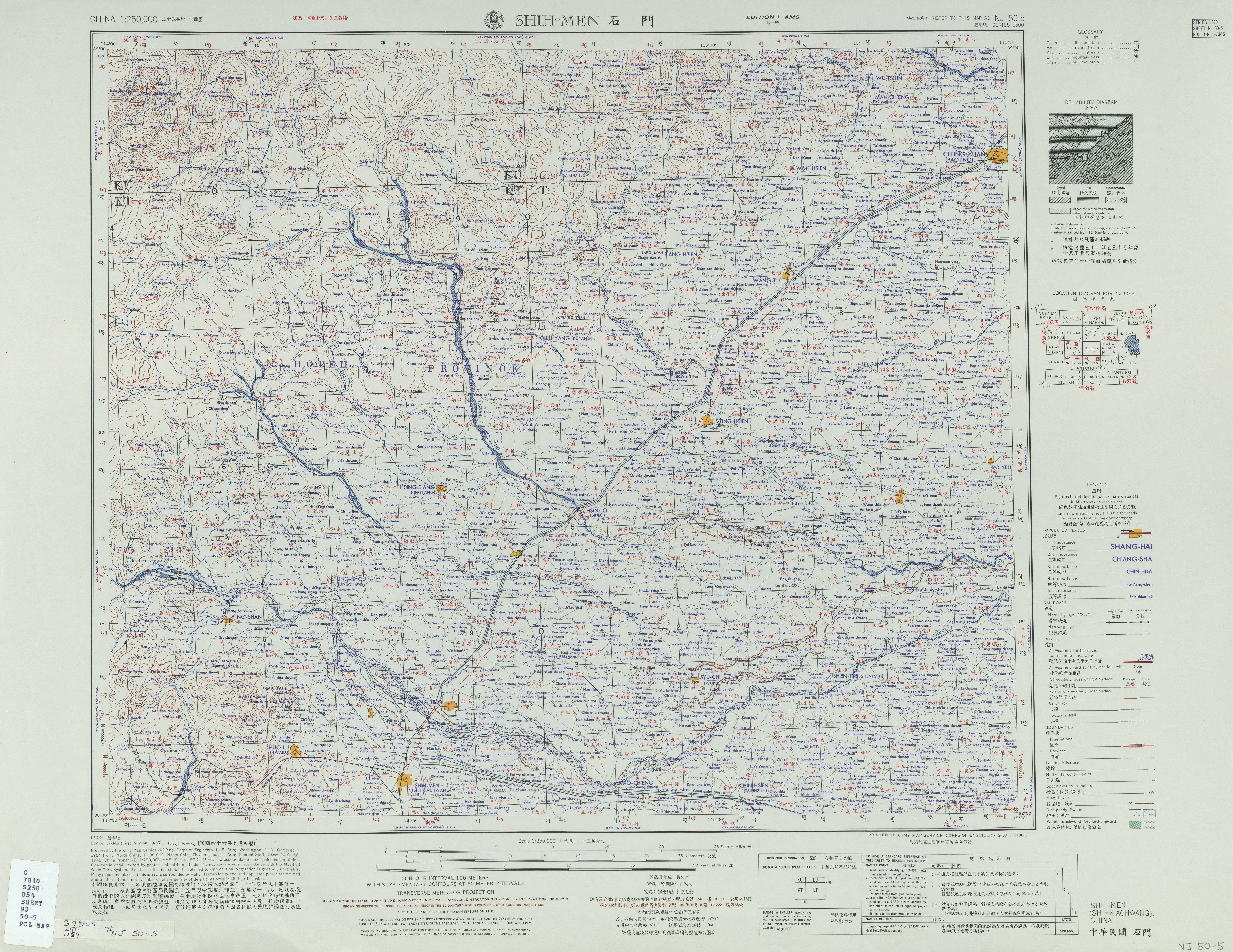 China AMS Topographic Maps